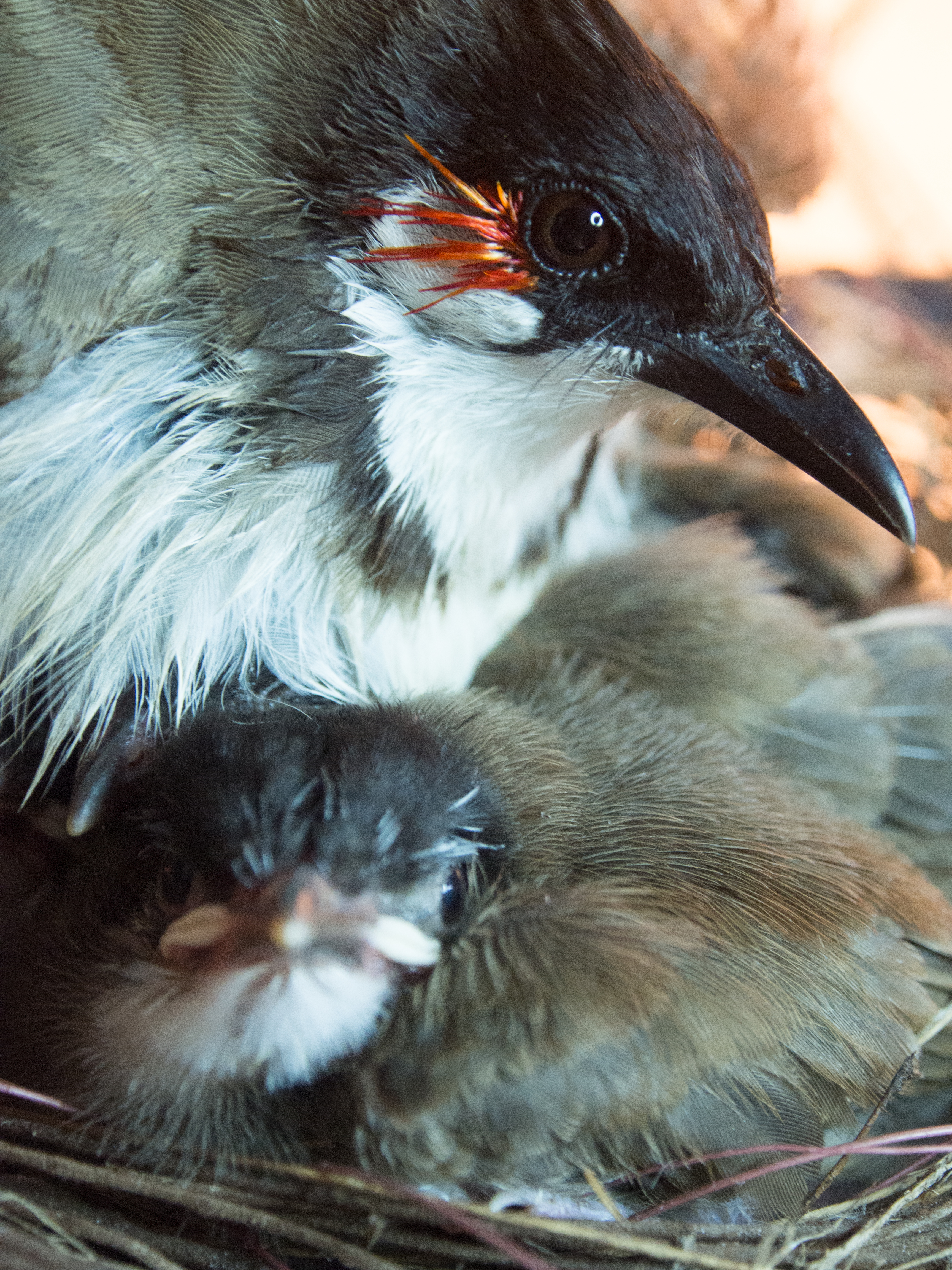 Red-Whiskered Bulbul with Chick in its nest